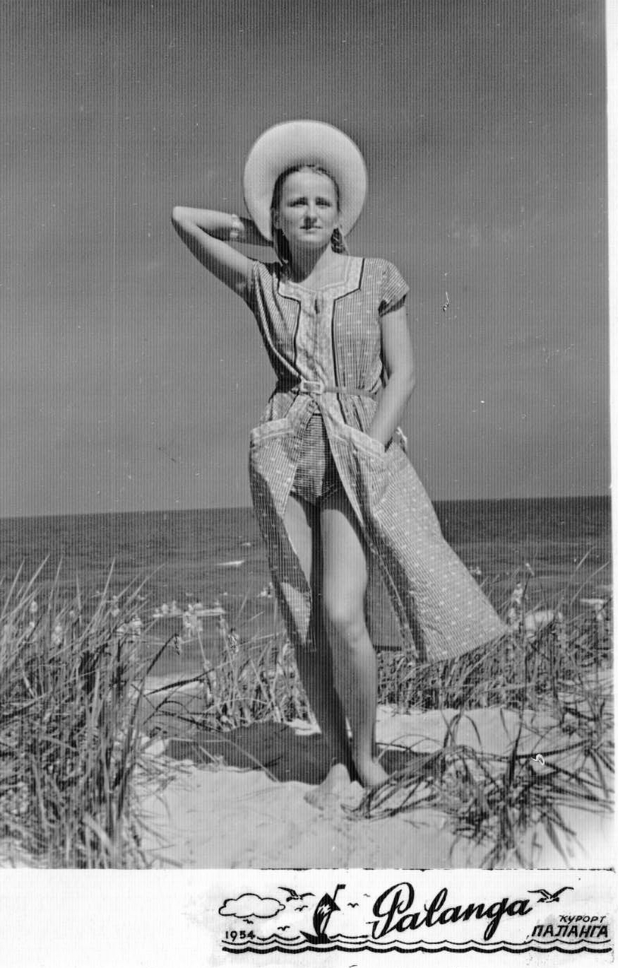 Studente